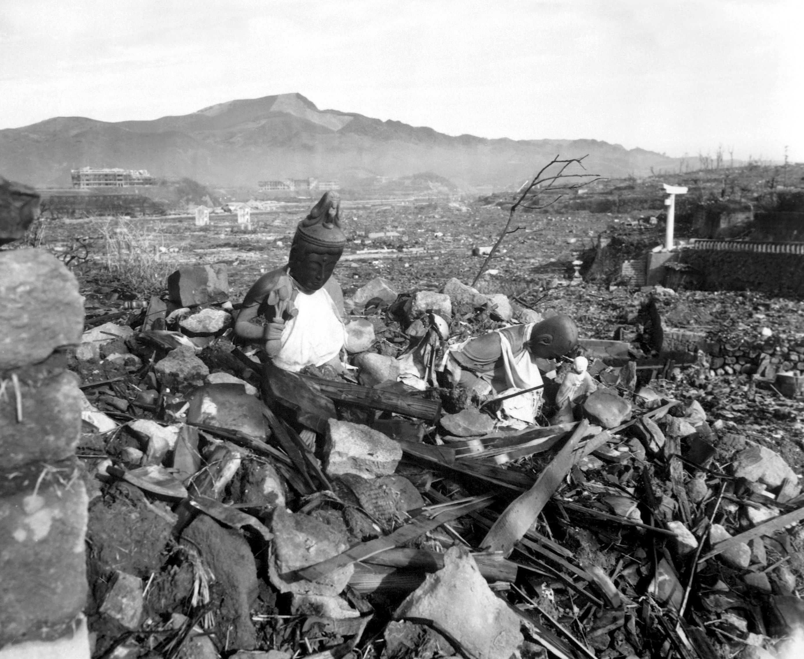 Battered religious figures stand watch on a hill above a tattered valley. Nagasaki, Japan. September 24, 1945, 6 weeks after the city was destroyed by the world's second atomic bomb attack. Photo by Cpl. Lynn P. Walker, Jr. (Marine Corps) NARA FILE #: 127-N-136176